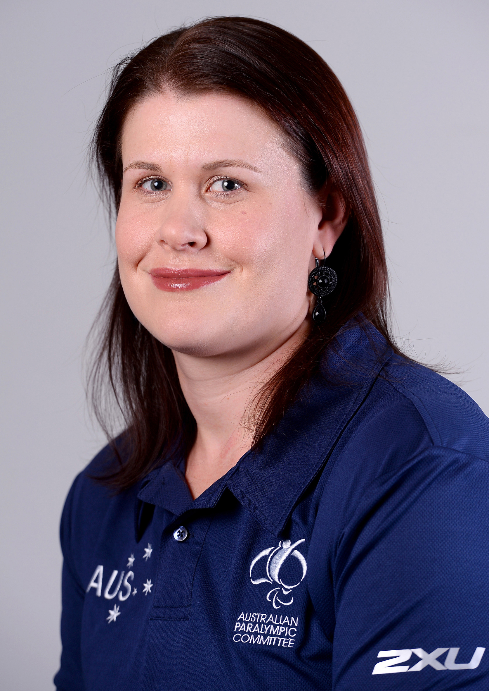 Portrait photograph of Rosemary Little taken at team processing session for shadow members of 2016 Australian Paralympic team